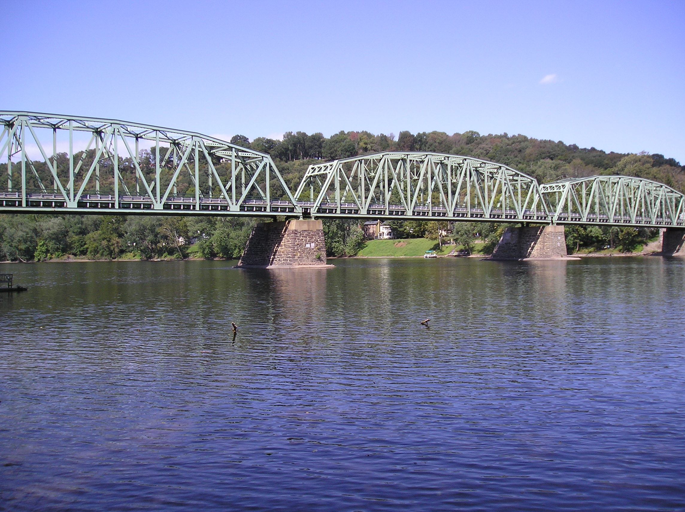 Upper Black Eddy-Milford Bridge — over the Delaware River, from Upper Black Eddy, PA.